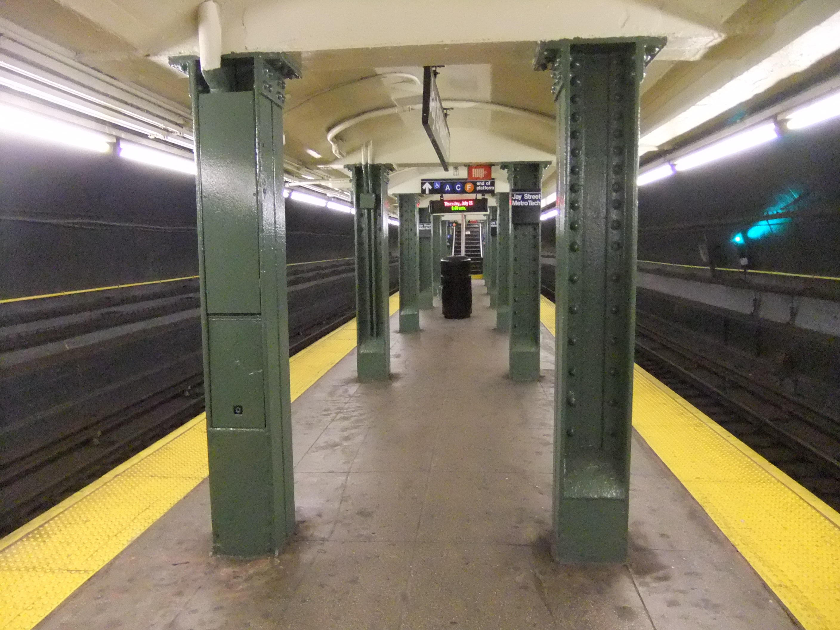 Platform at Jay St-Metrotech (4th Avenue), post-renovation.